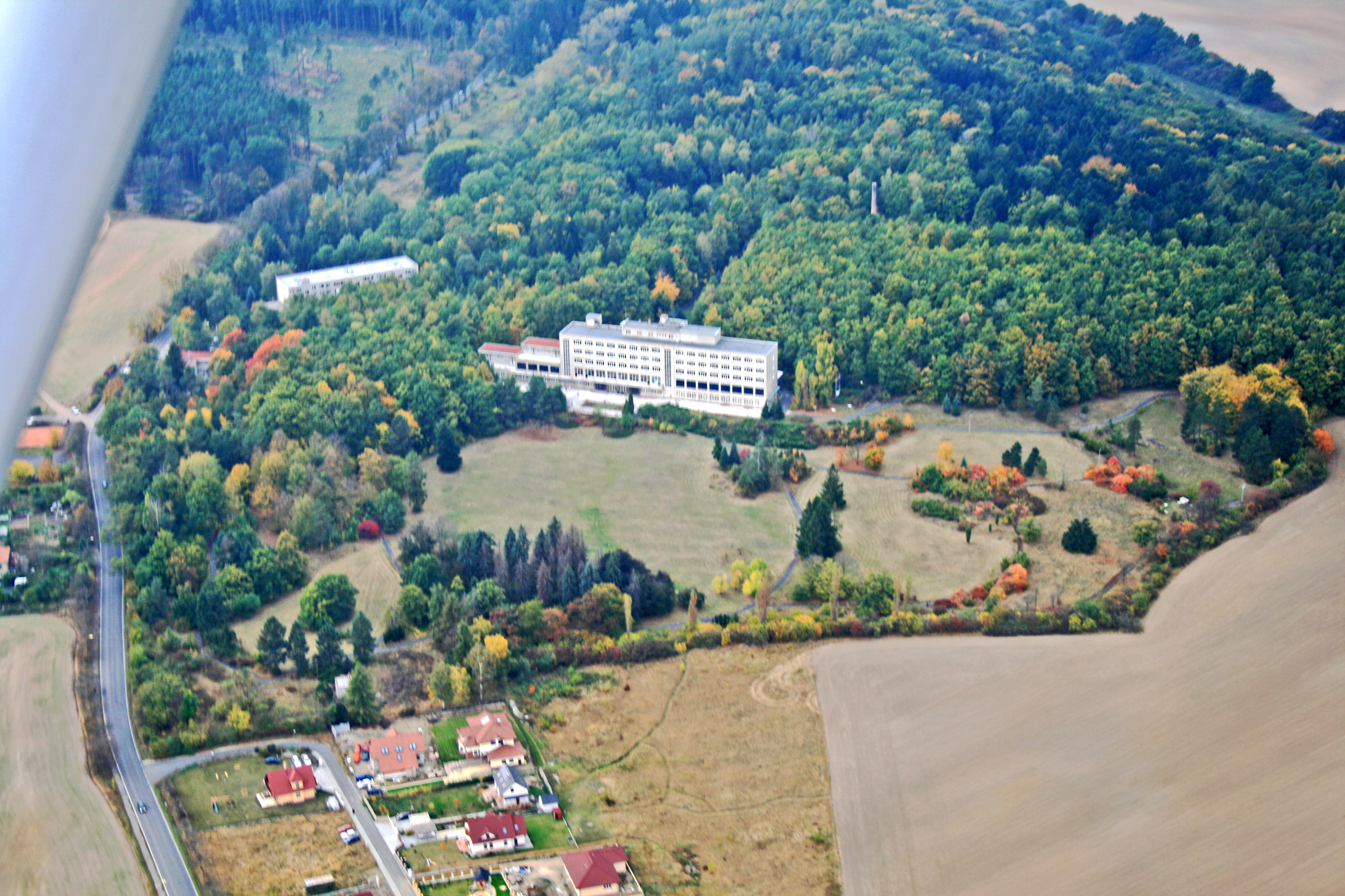 Air photo of Masaryk sanatorium near of Dobříš town, Czech Republic